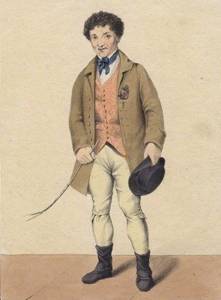 Coloured lithograph portrait of Edward Knight (1774–1826), English actor, in character as Hodge in Love in a Village by Isaac Bickerstaff.